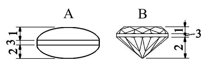 types of cutting - 1. top part, 2. bottom part, 3. Thin part of girdle